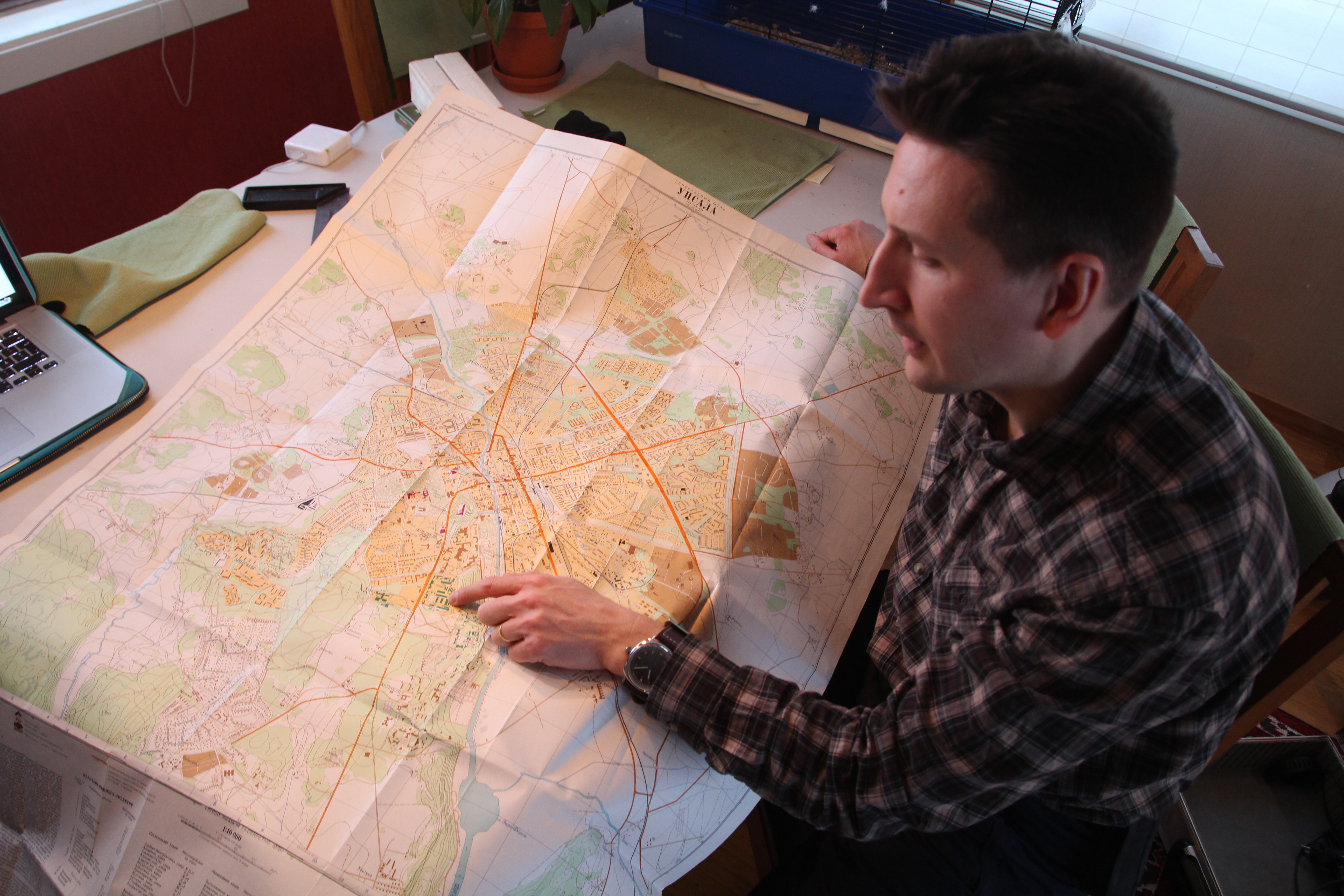 Lars Gyllenhaal showing secret soviet map. Photo: Carl-Magnus Helgegren